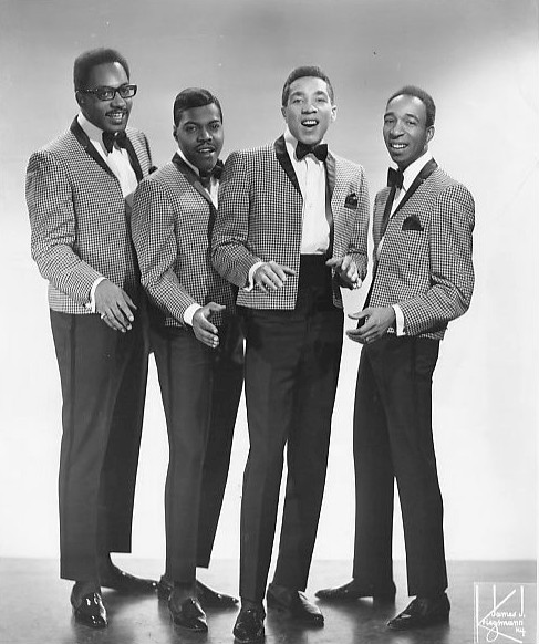 Photo of Smokey Robinson and The Miracles.